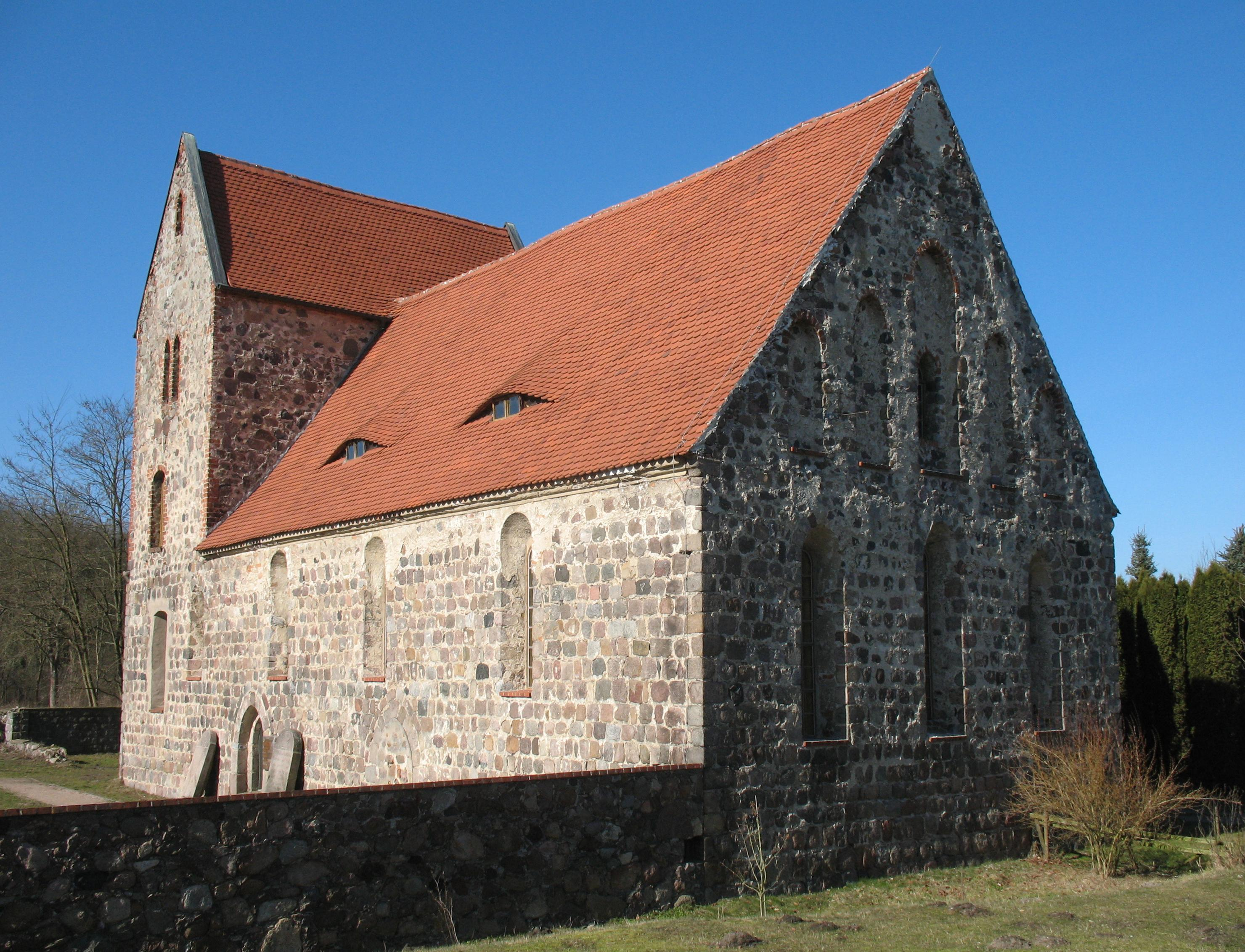 Church in Oderberg-Neuendorf in Brandenburg, Germany